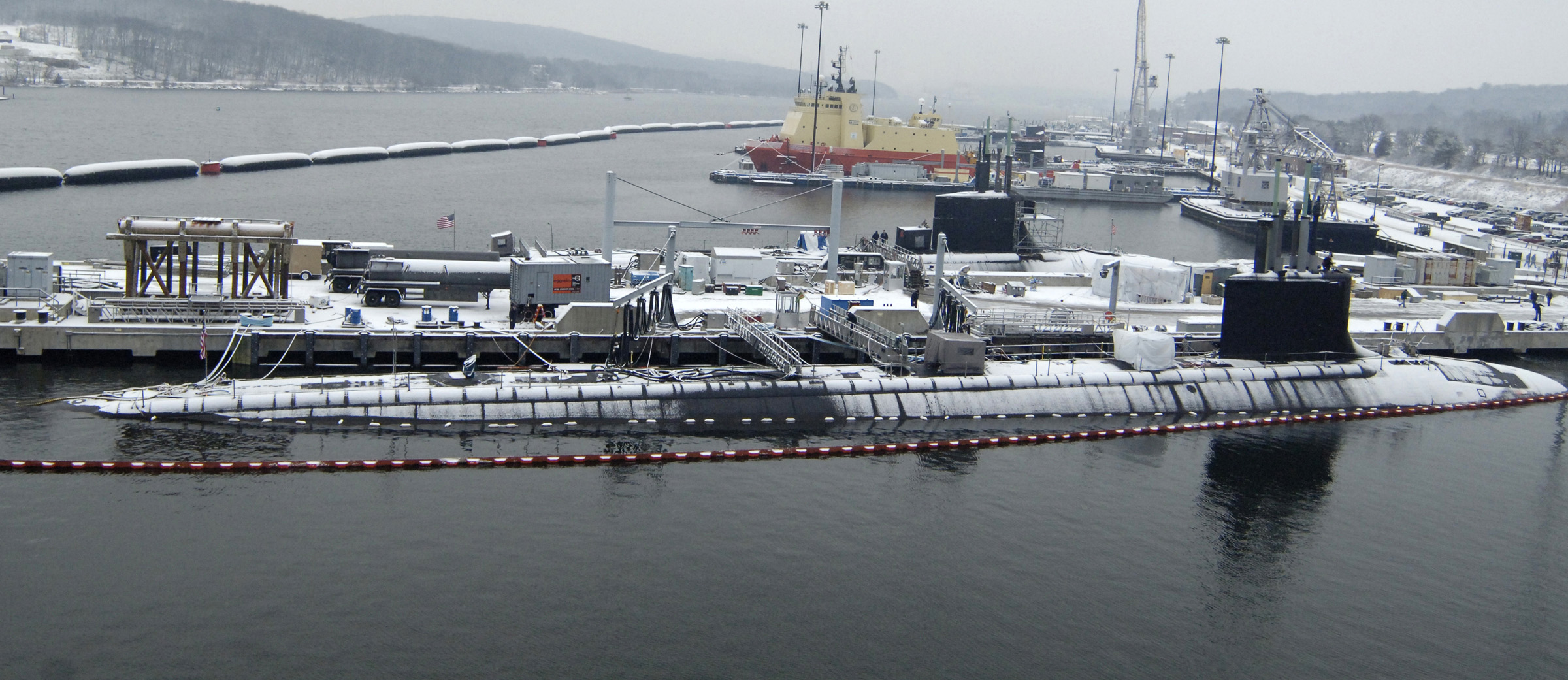 New London, Conn. (Feb. 2, 2007) - An aerial view of attack submarine USS Virginia (SSN 774), bottom, and fast attack submarine USS Connecticut (SSN 22) moored to the pier at Submarine Base New London. U.S. Navy photo by John Narewski (RELEASED)